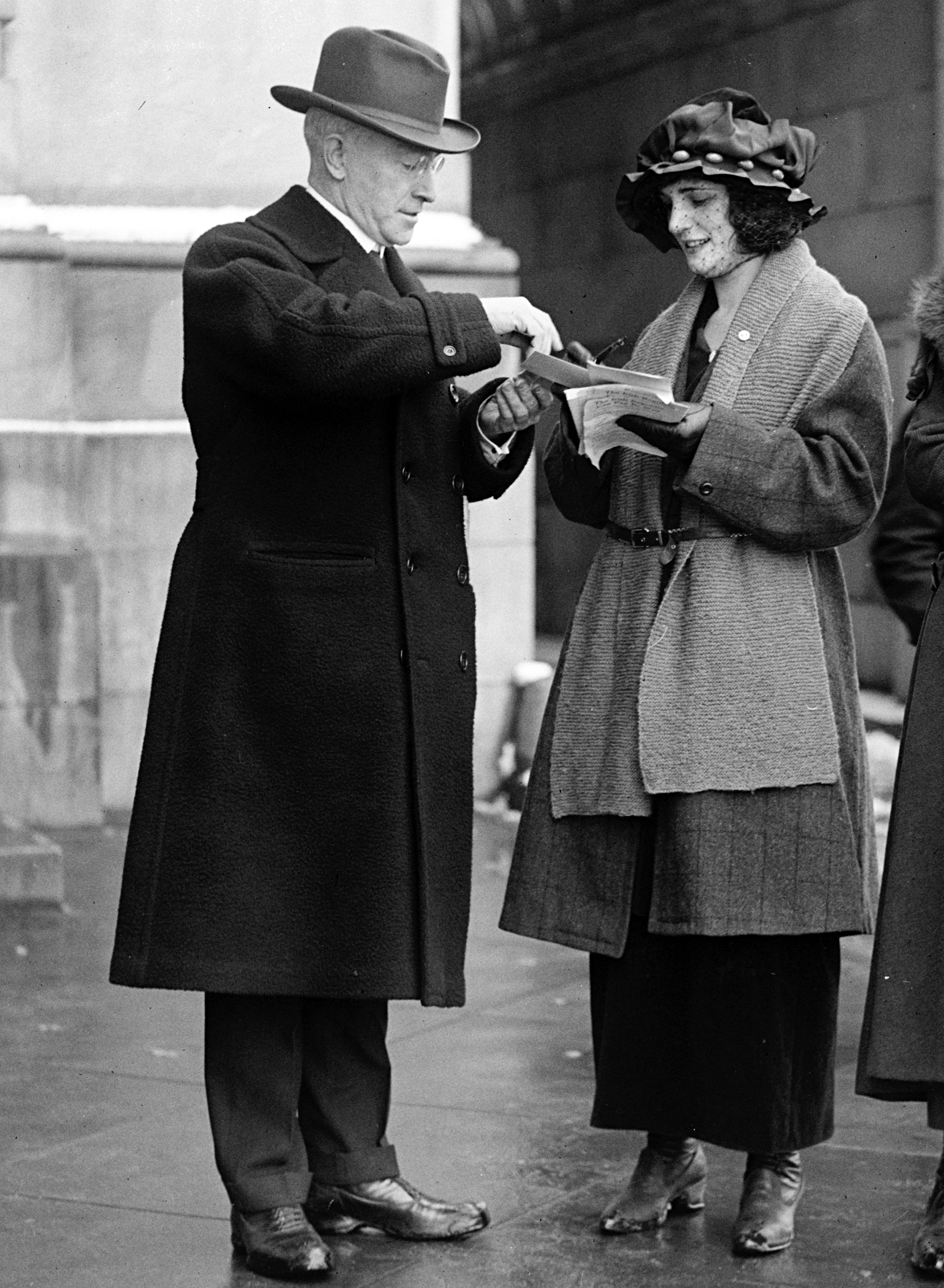 John J. Eagan, US Representative from New Jersey, accompanied by an unidentified woman